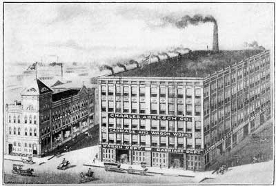 Charles Abresch Company plant in Milwaukee, 1903. The company was a carriage and wagon manufacturer..